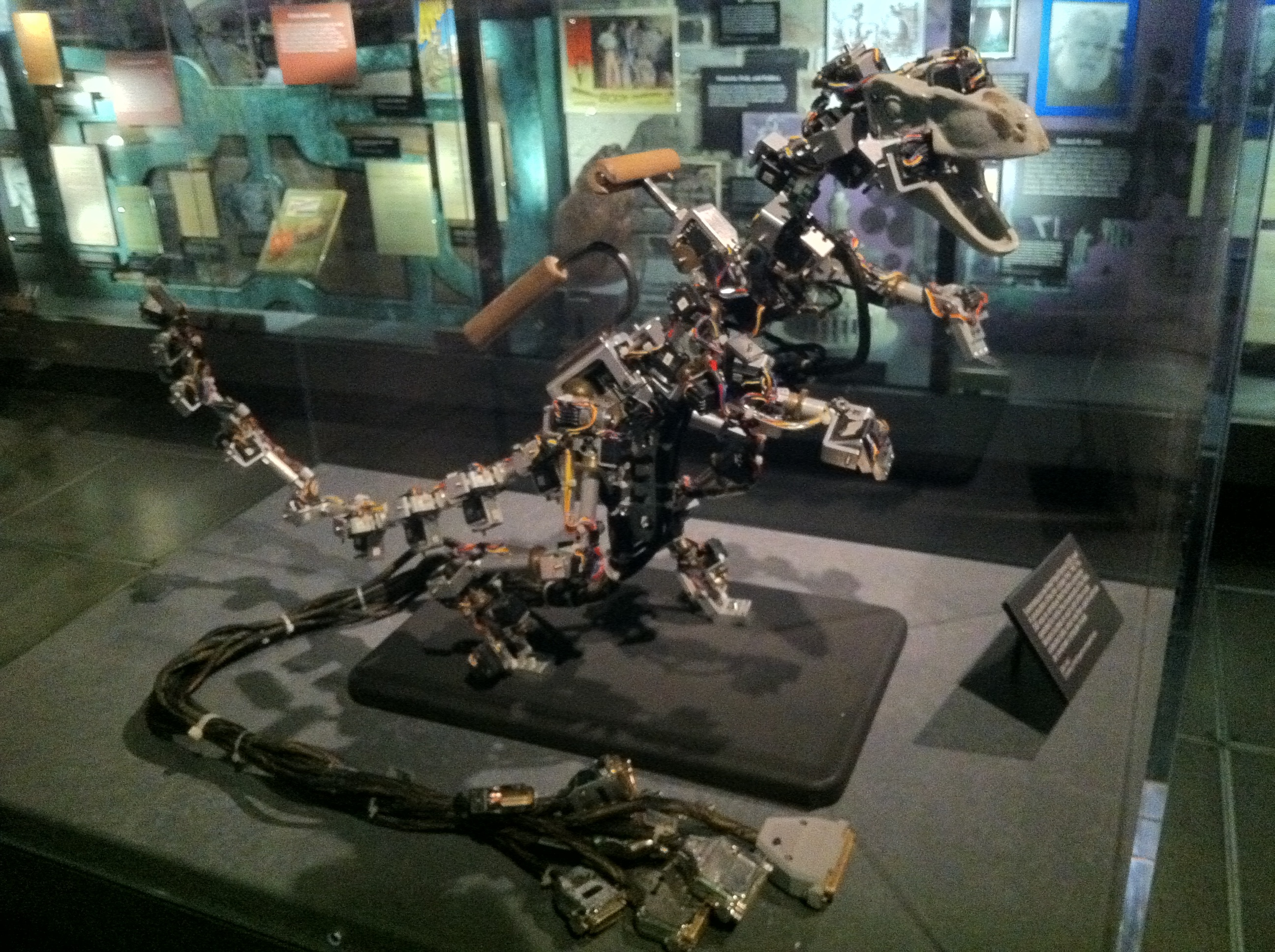 Jurassic Park T-Rex direct input device, with a jillion serial cables